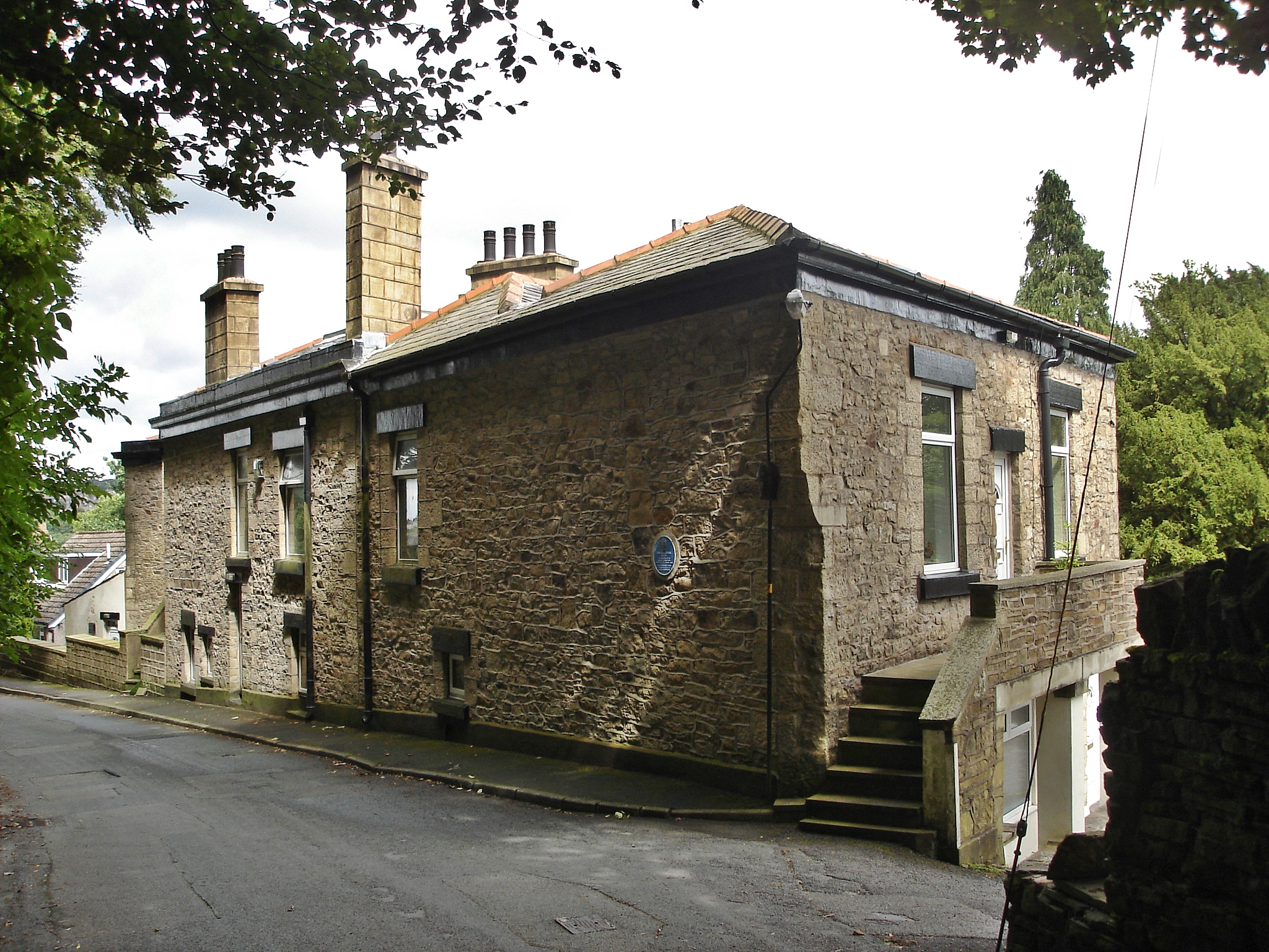 Low Hill House, Darwen. Built for Samuel Crompton and extended by Eccles Shorrock.